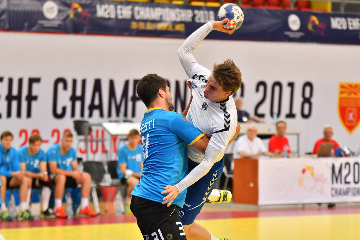 M20 EHF Championship 2018 in Skopje, Macedonia